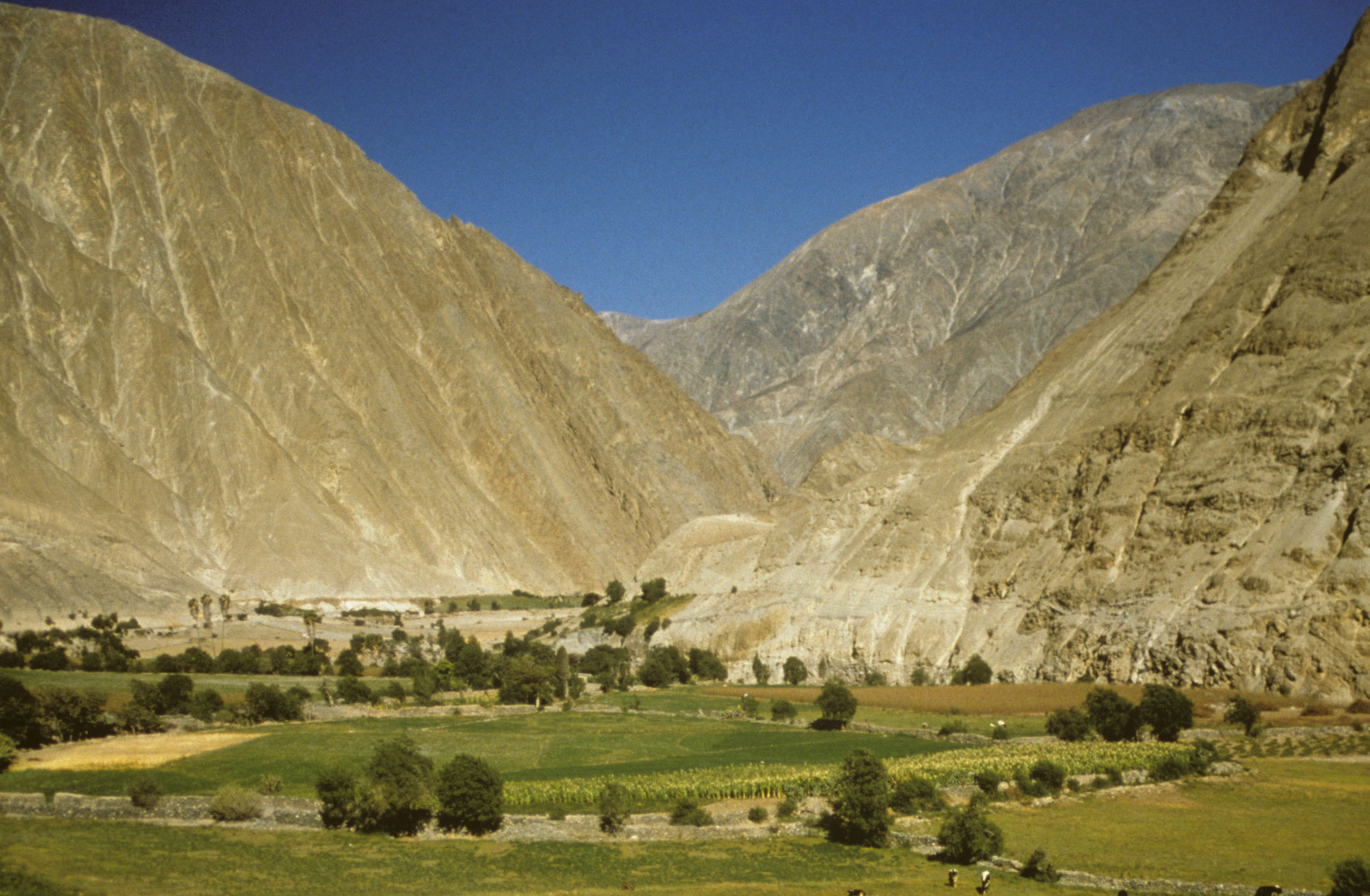 Lush fields within arid mountains, near Paramonga, Peru